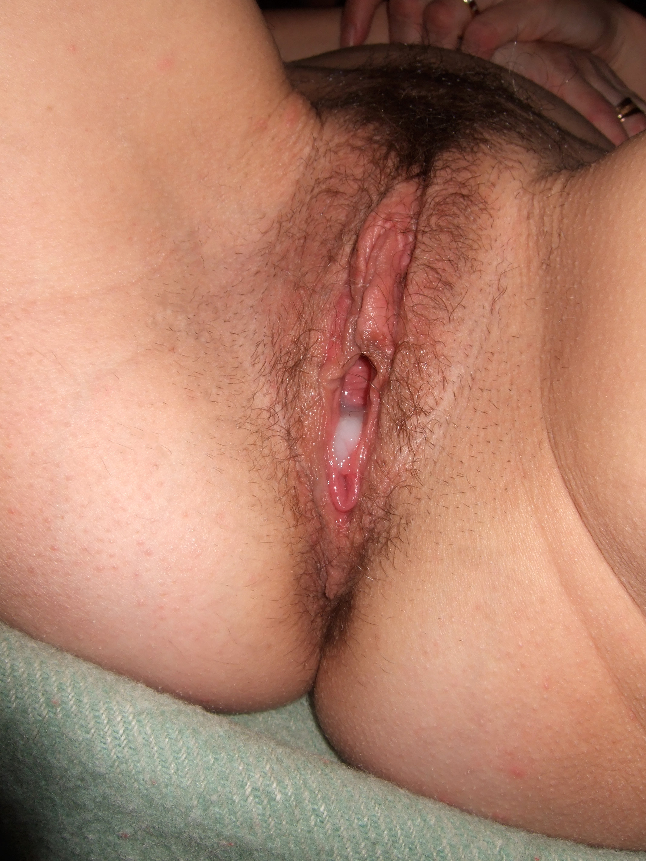 Human semen slipping out of the vagina